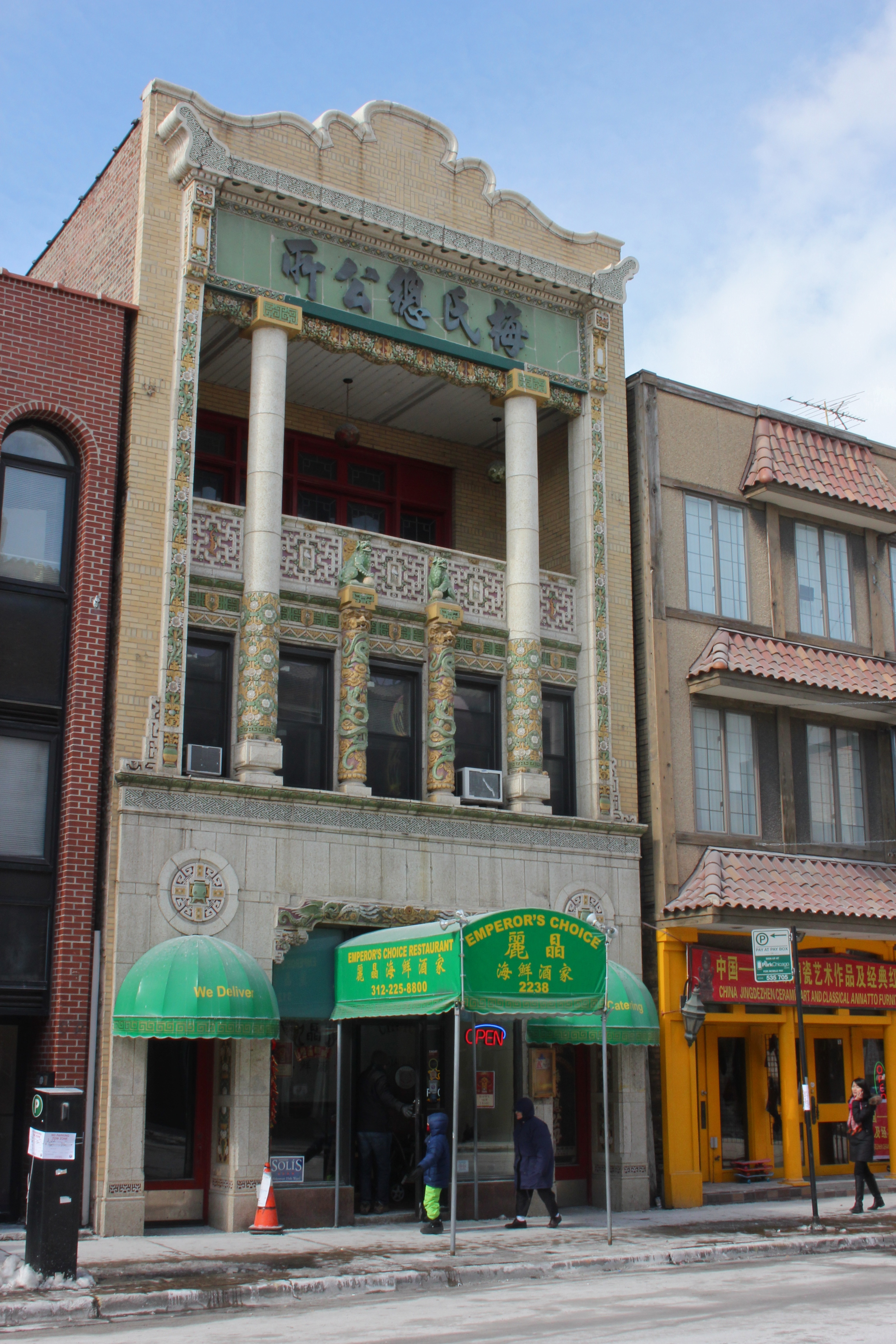 Emperor's Choice - Chinatown